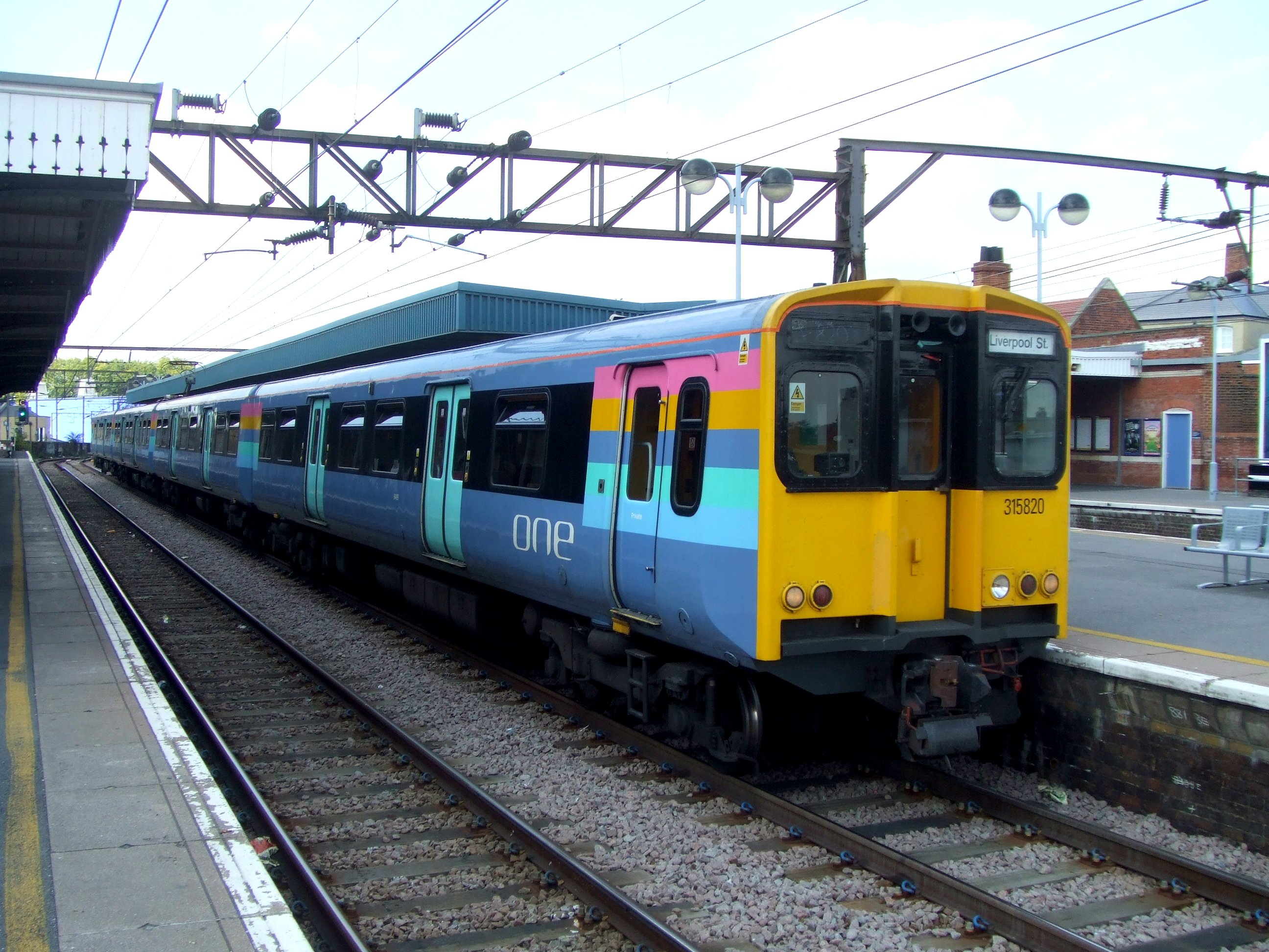 BREL (York) Class 315 Standard Mk.II 25k v ac overhead inner-suburban 4-car emu No.315 820 of "One" passing Hackney Downs on its way to Liverpool St., 08/07.